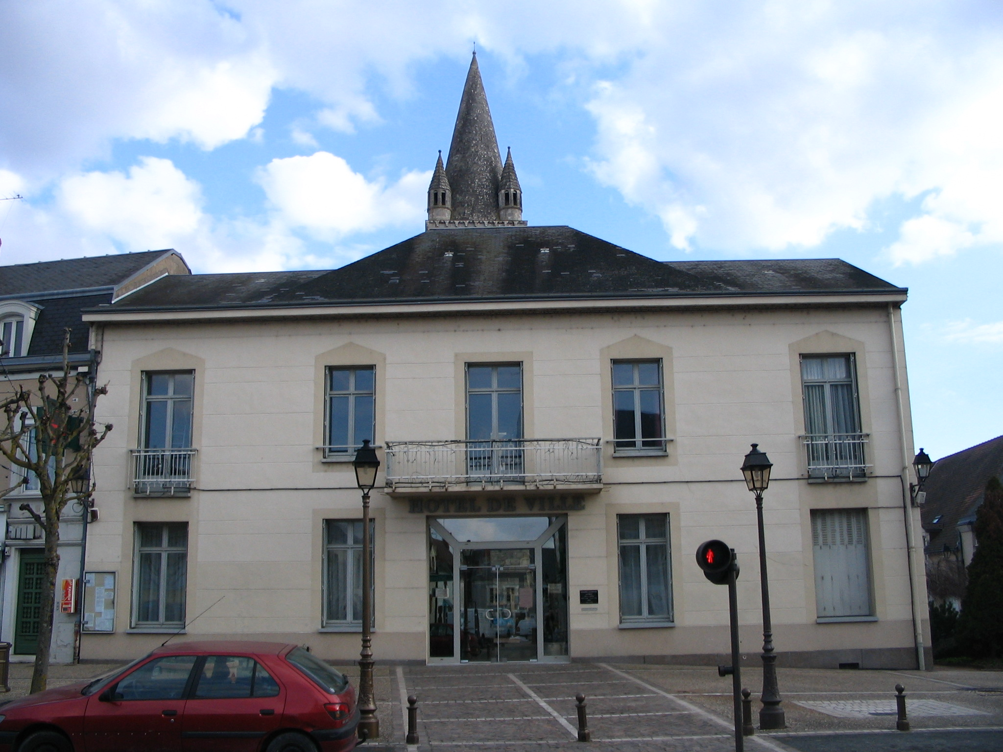 The town hall of Déols, Indre, France.